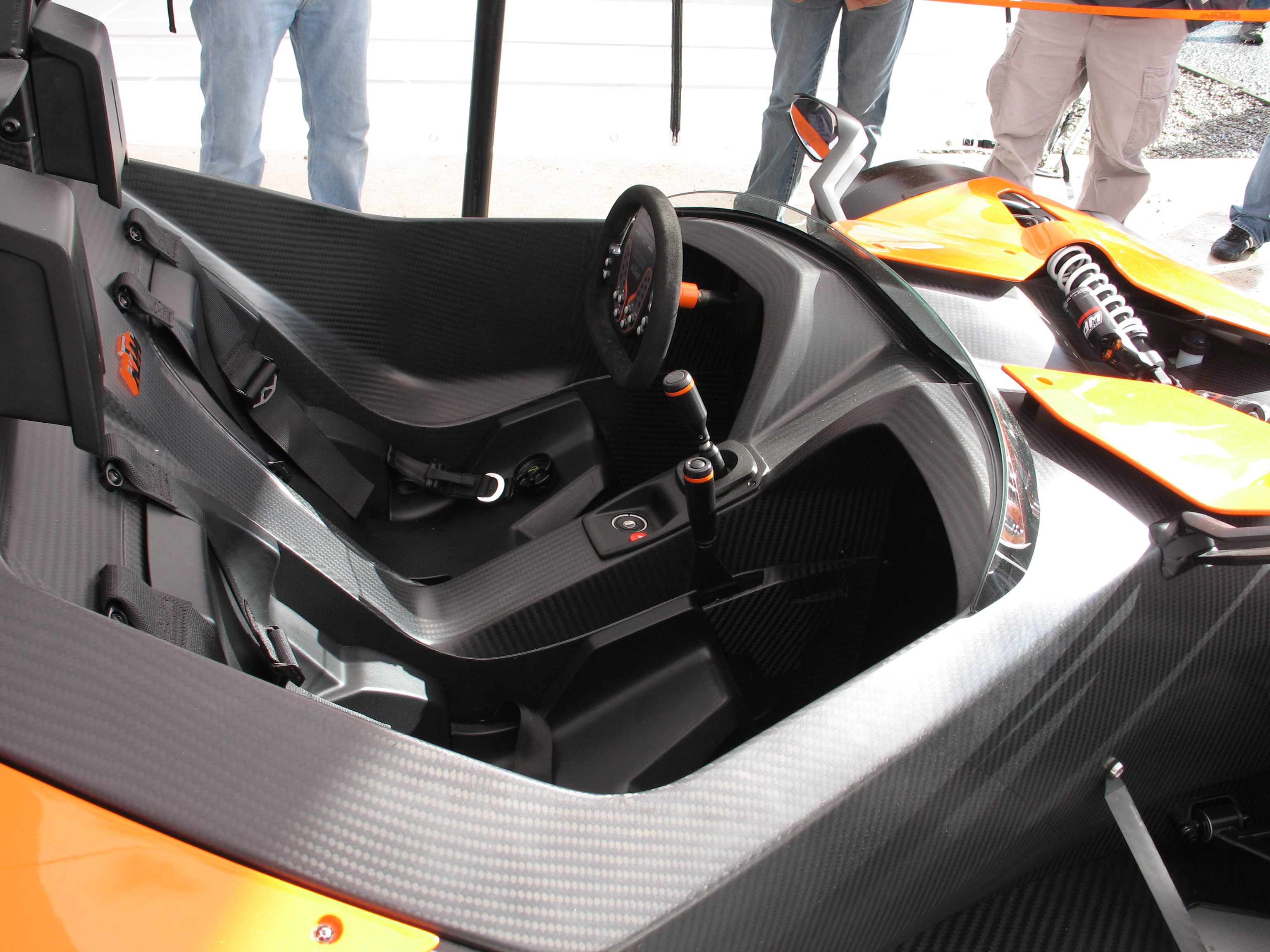 A KTM X-Bow on display